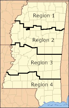 Locator Map of Mississippi, United States. Added Administrative Regions of the Mississippi Forestry Commission.